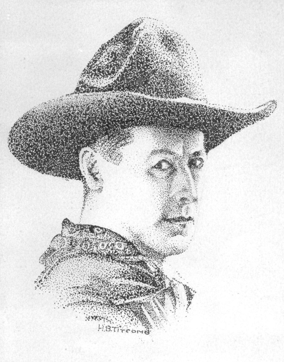 Drawing of William S. Hart